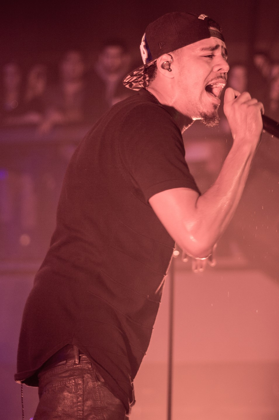 J. Cole perfoming on What Dreams May Come Tour at London Music Hall.